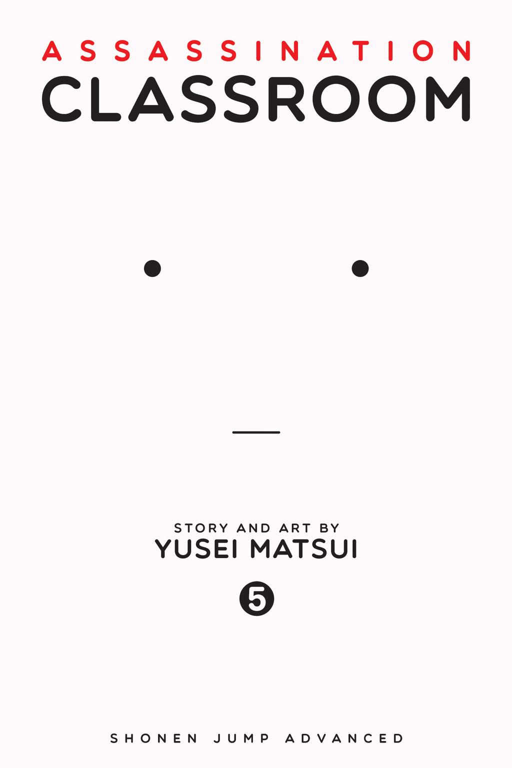 The cover for volume 5 of Assassination Classroom.